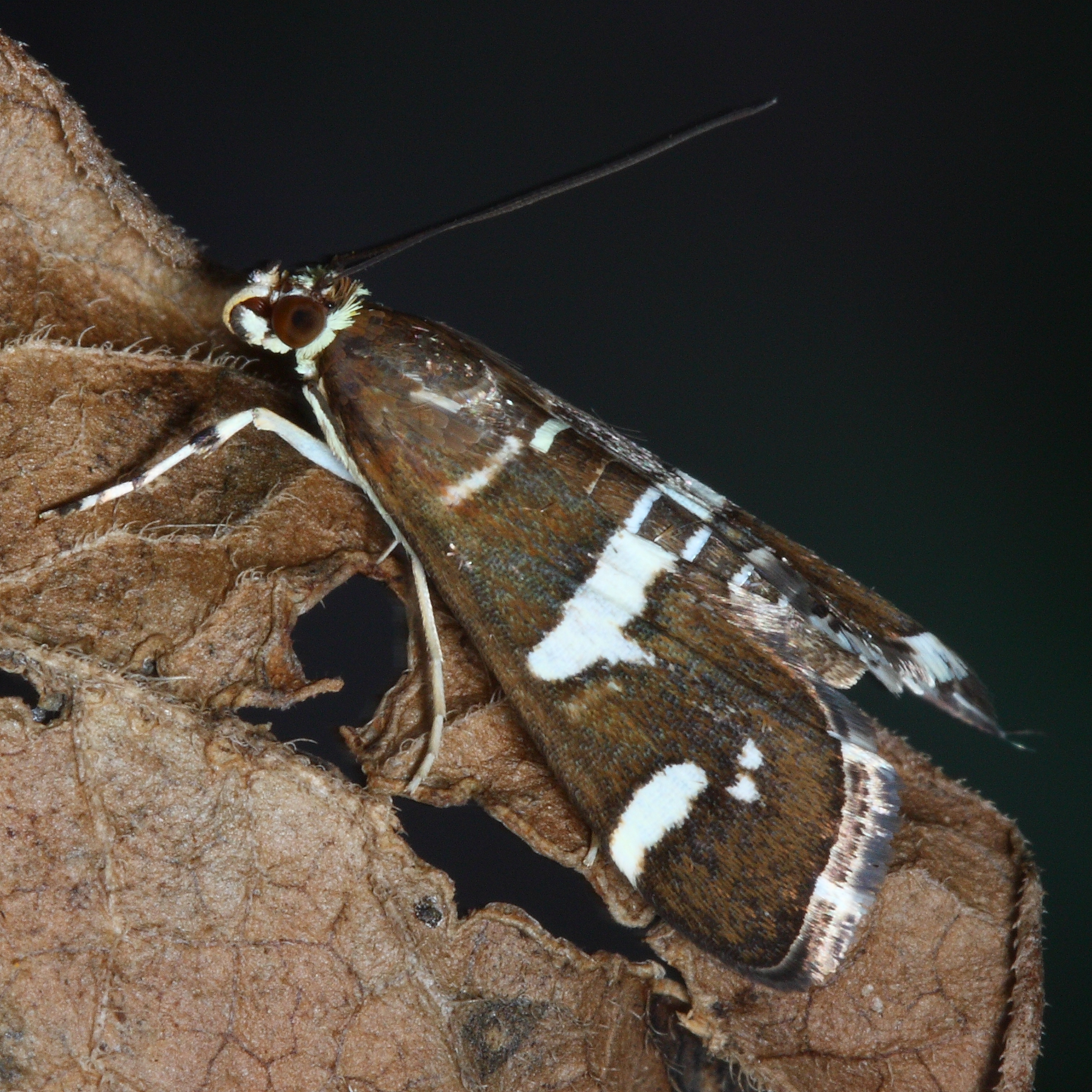 Adult Hawaiian beet webworm moth - Spoladea recurvalis